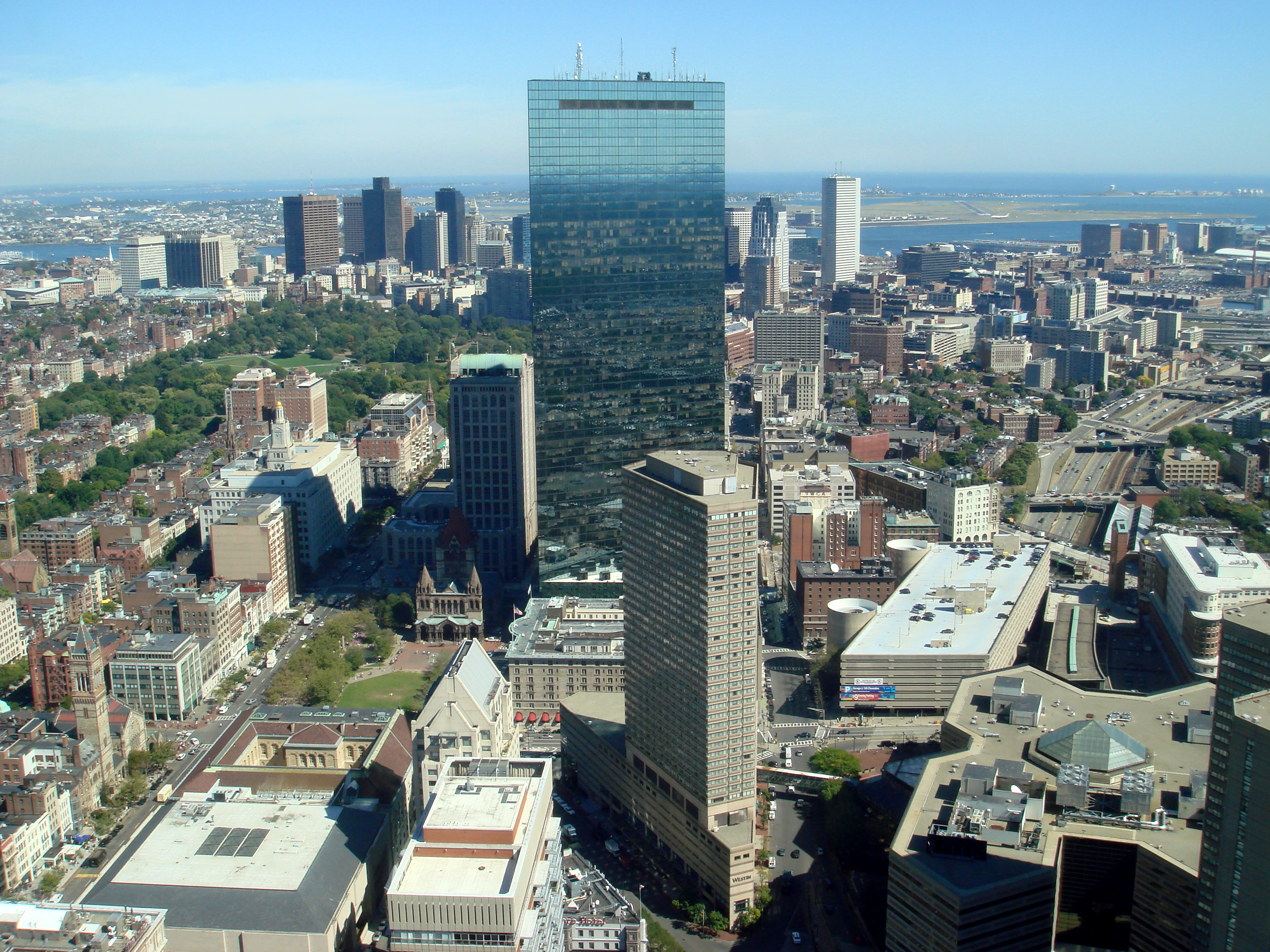 John Hancock Tower in Boston, Massachusetts. To the left you can see Copley Square with Trinity Church in the foreground and Boston Common in the background. I-90 (the Massachusetts Turnpike) is on the right with Logan International Airport at the top right.